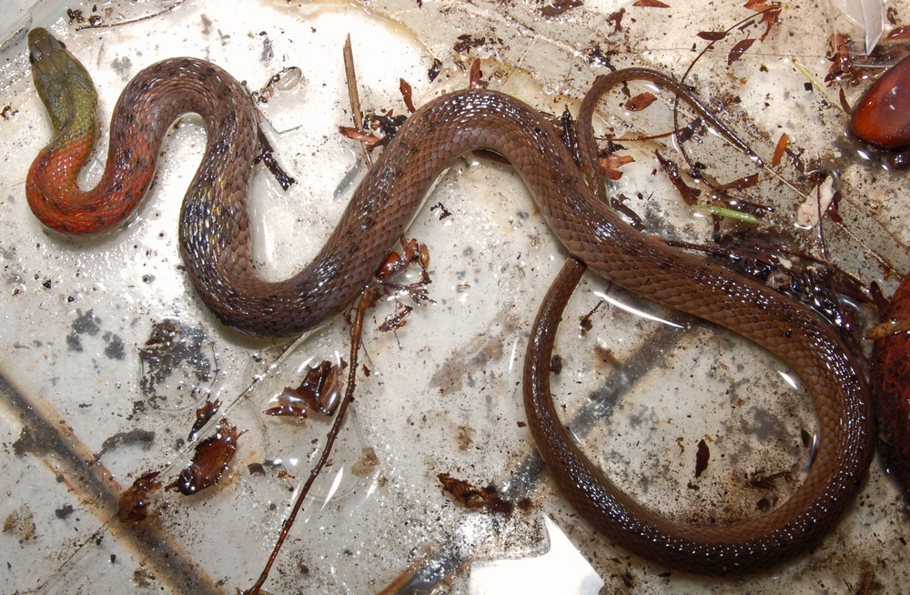 Rhabdophis subminiatus, adult, from Darmaga, Bogor, West Java, Indonesia